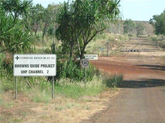 Browns Oxide Project sign